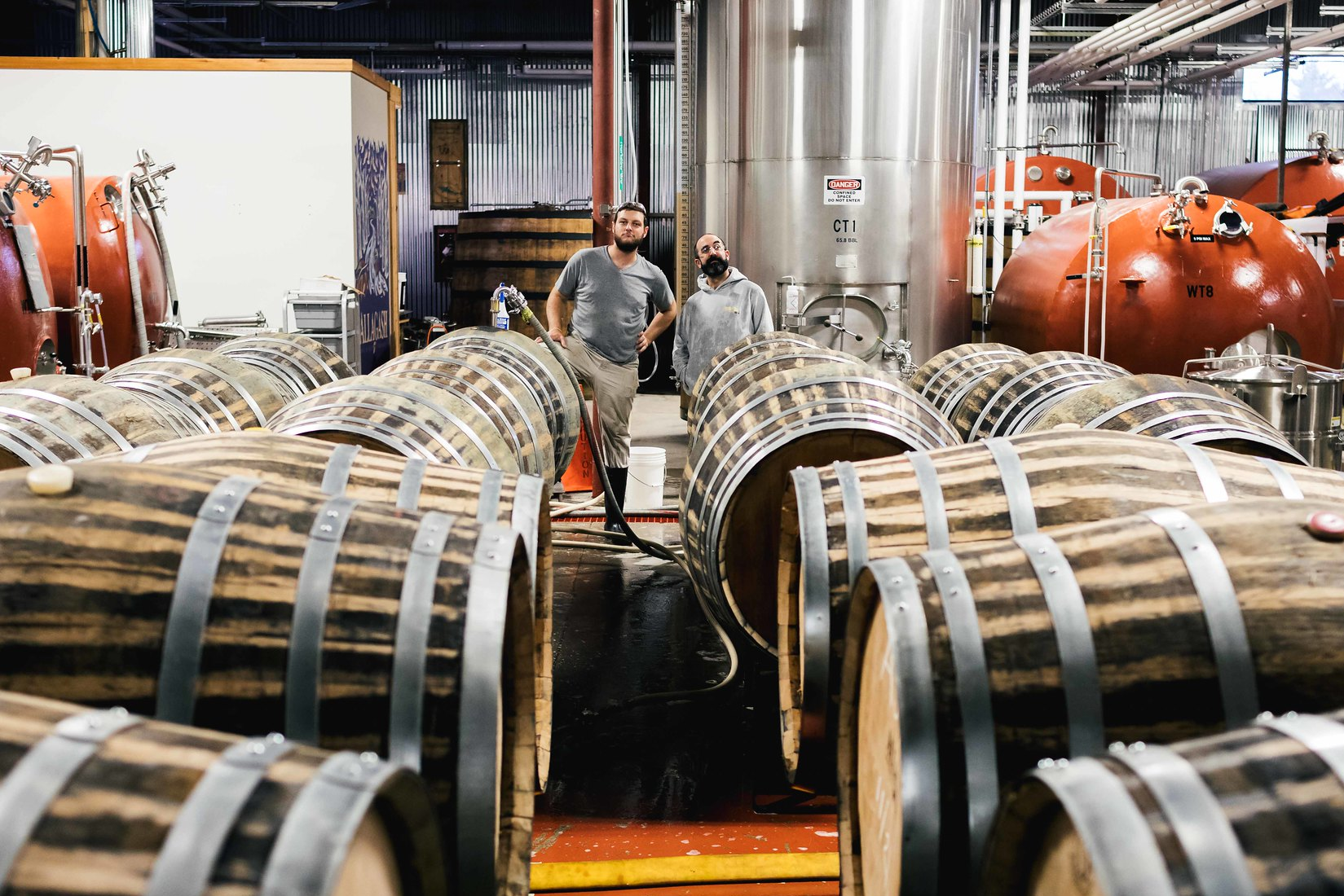 Filling aquavit barrels with saison beer at Allagash Brewing, US